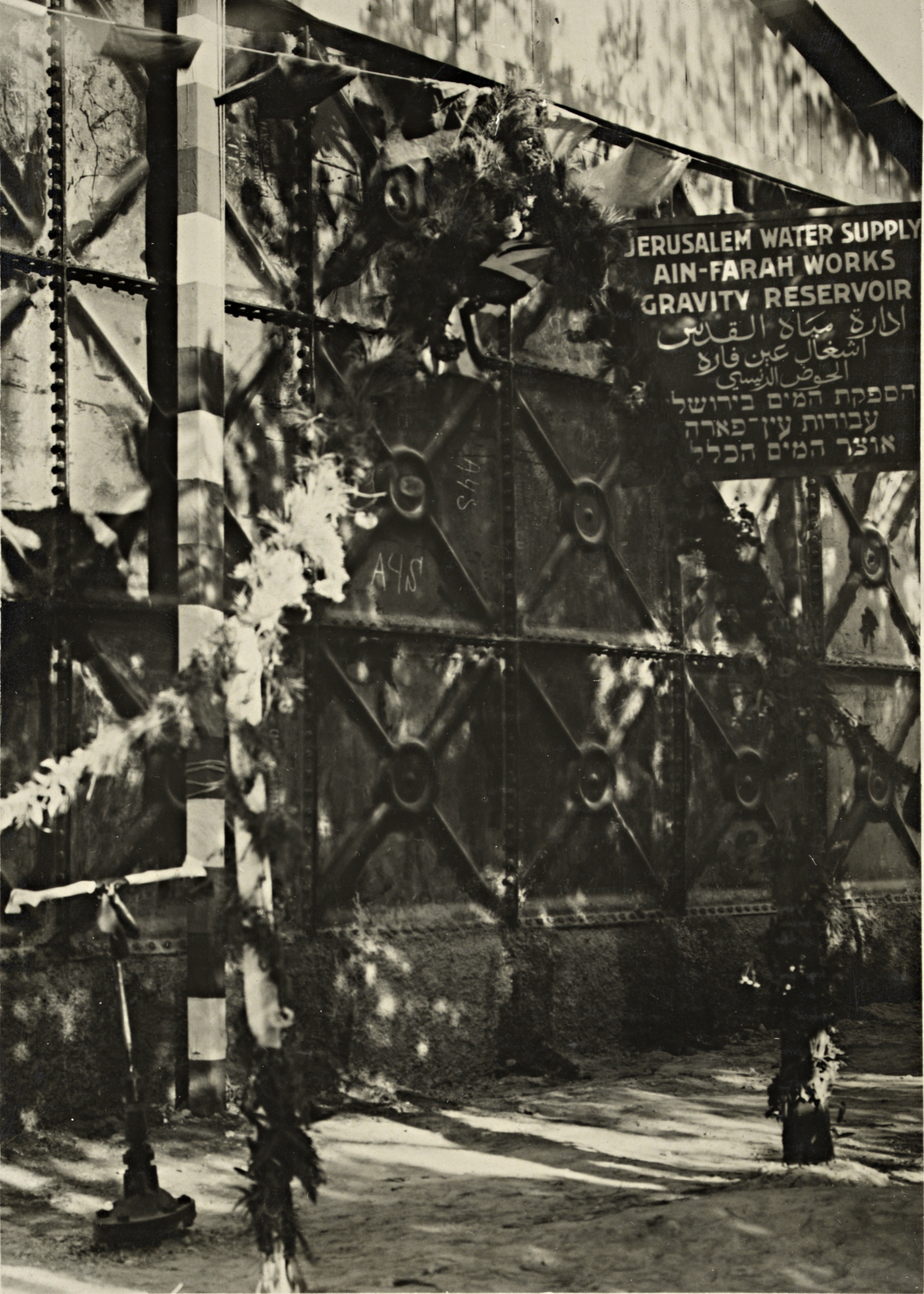 One end of the large gravitation tank on Mt. Scopus. Capacity of tank is 200,000 gallons, 1926. LC-DIG-ppmsca-13291-00291 (digital file from original, page 101, no. 291).